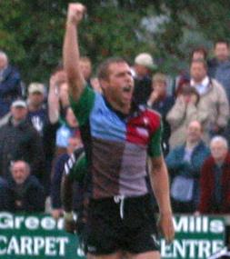 The Winning Try